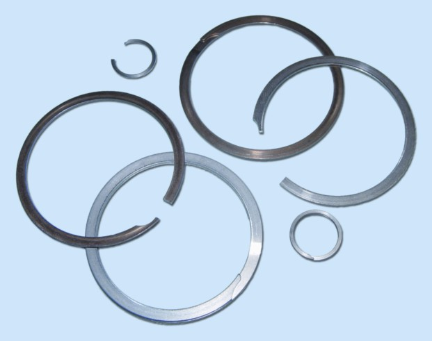 A collection of spiral retaining rings